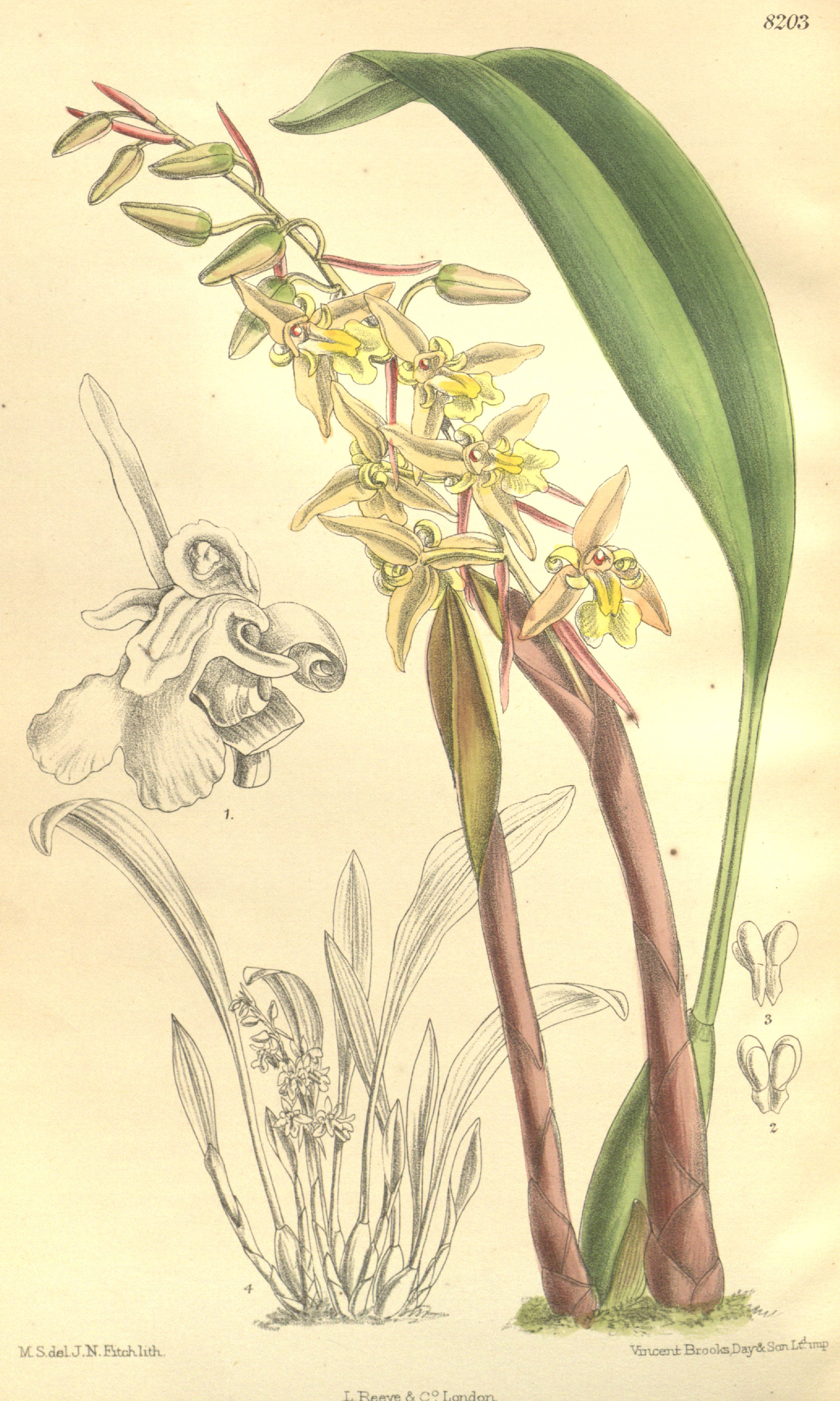 Illustration of Chelonistele sulphurea var. sulphurea (as syn. Coelogyne perakensis)